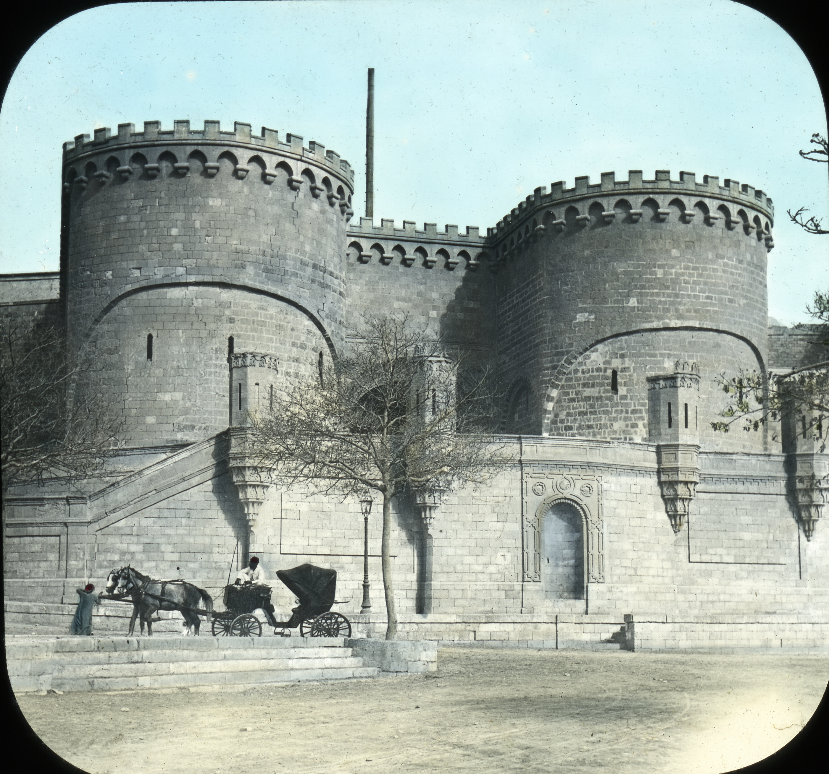 Lantern Slide Collection: Views, Objects: Egypt. General Views\People [selected images]. View 046: Egypt - Gate at the Citadel, Cairo. 1166 Saladin., n.d., T. H. McAllister, Manufacturing Optician. 49 Nassau Street, New York. Brooklyn Museum Archives (S10|08 General Views_People, image 9789). Help us map this image by using Suggestify to suggest a location for it.